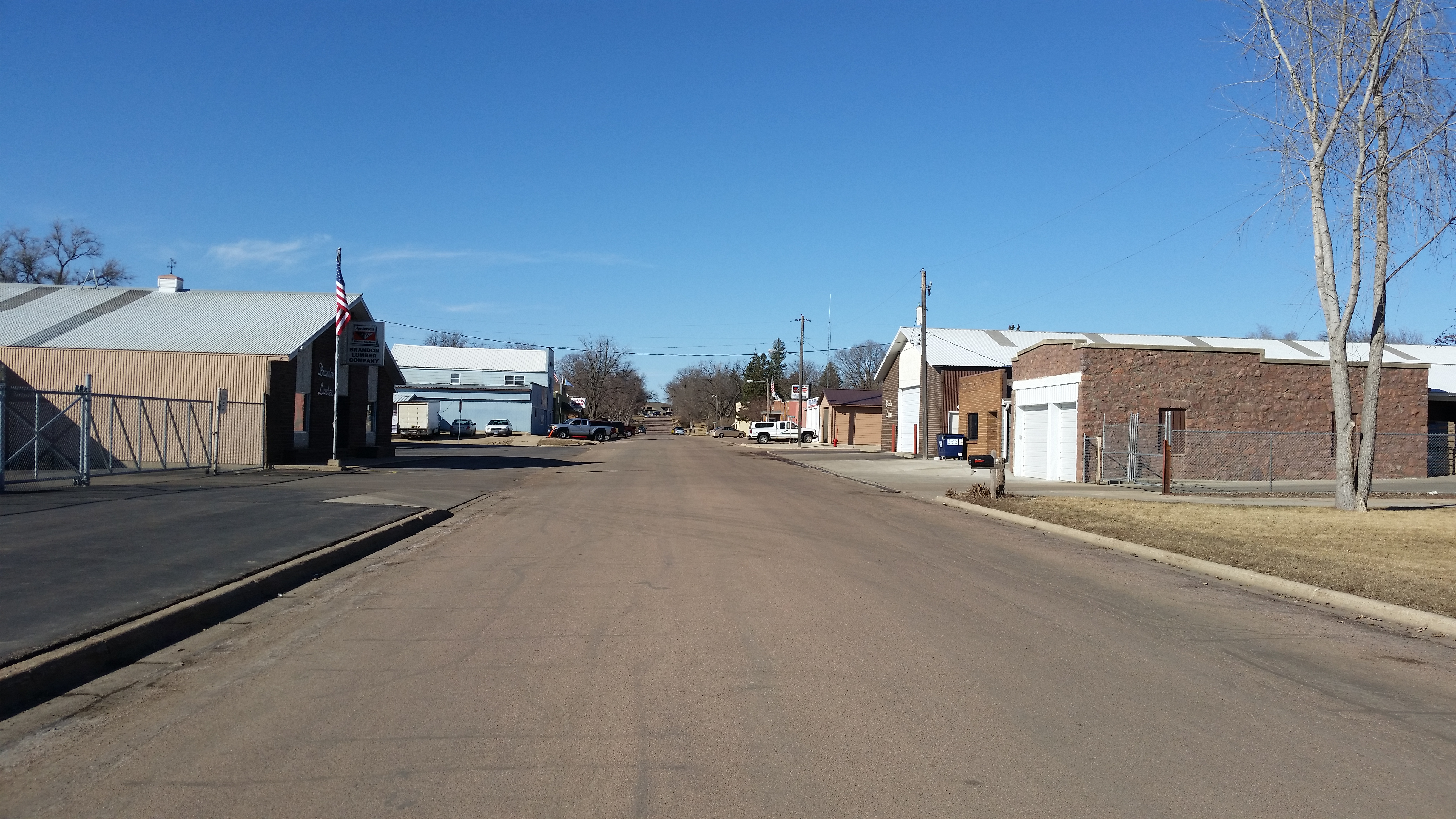 Downtown Brandon looking north on Main Street